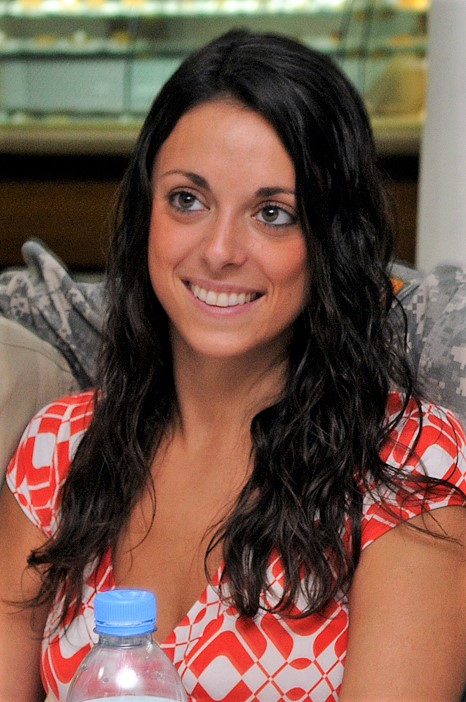 Eliza Orlins at Camp As Sayliyah, Qatar, May 20, 2008. Orlins is a former participant in the popular reality-television series 'Survivor.'